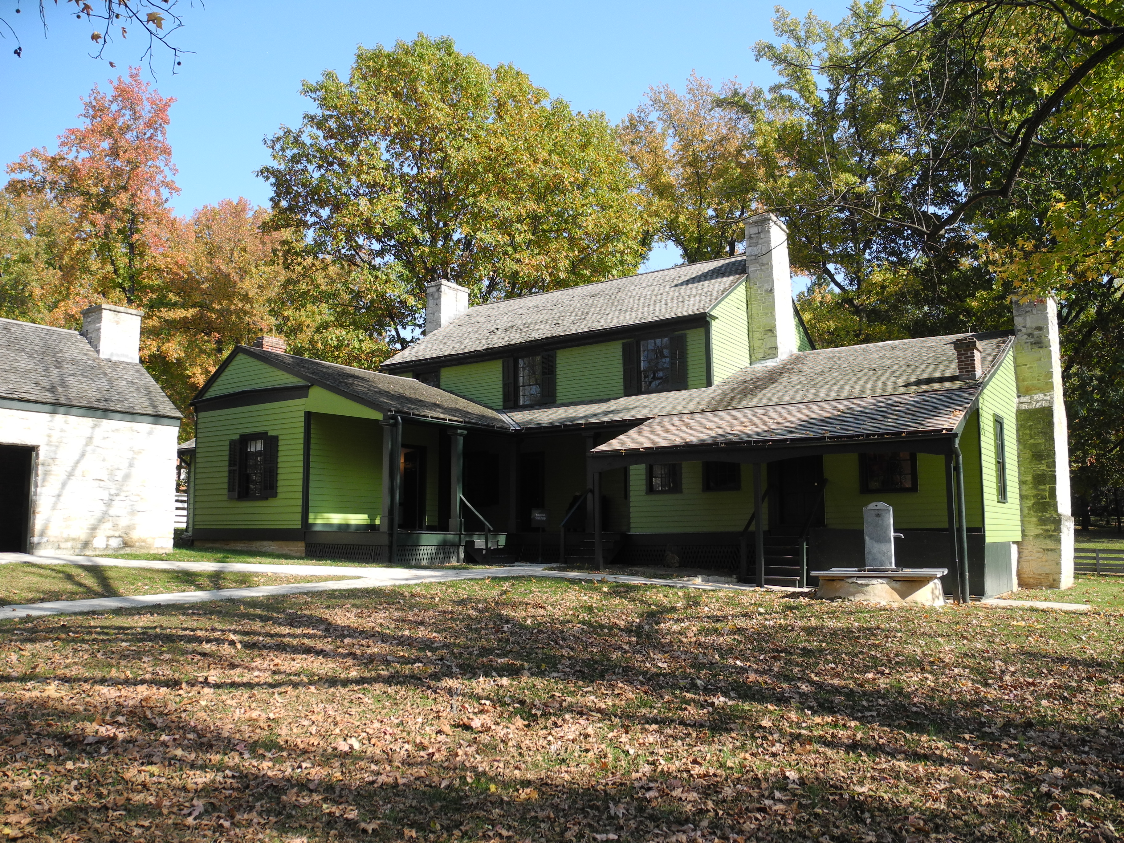 Ulysses S. Grant National Historic Site, on the site of White Haven Farm in St. Louis County, Missouri. Rear view.